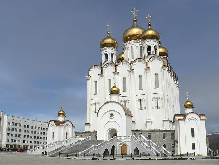 Магаданский Троицкий собор. Фасад